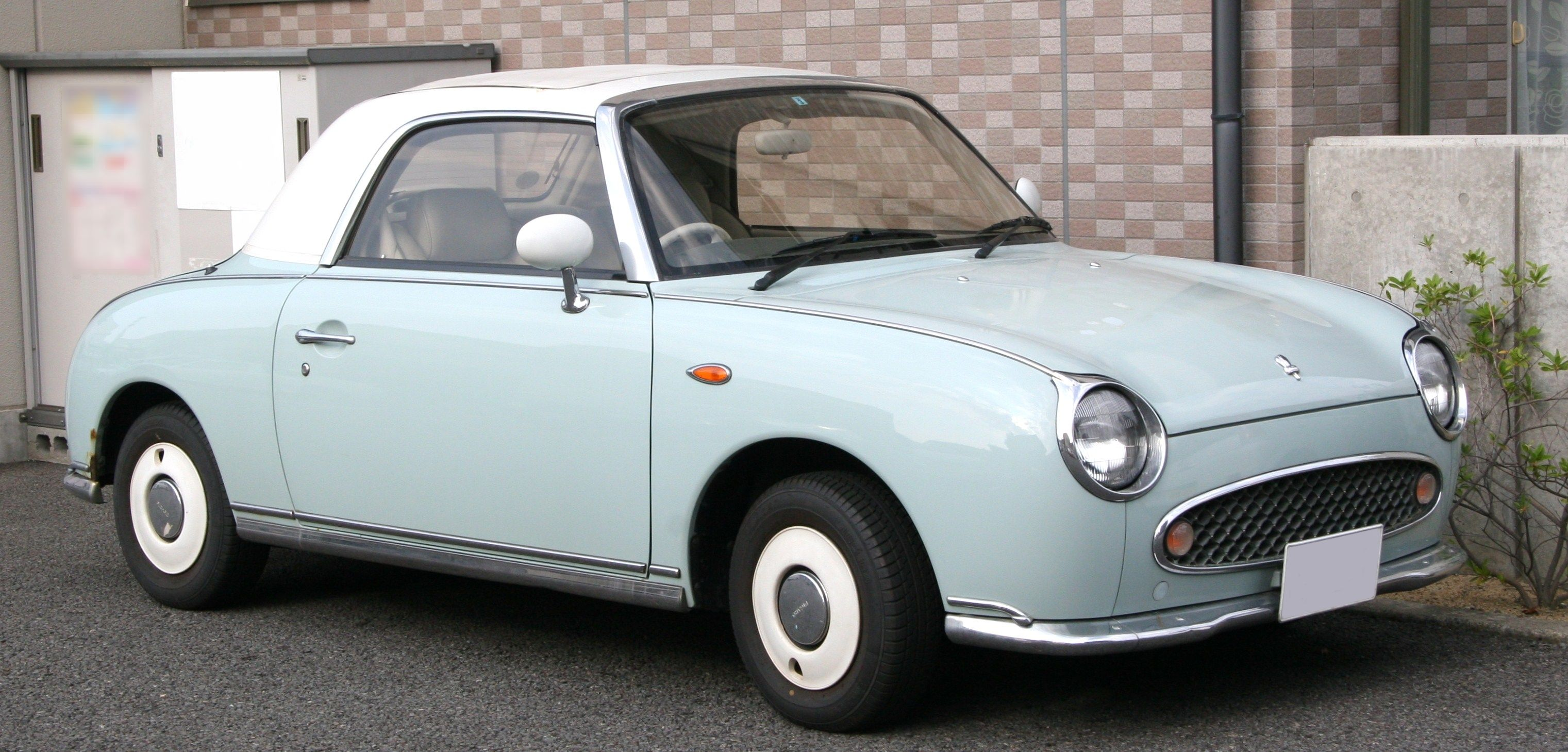 Nissan Figaro